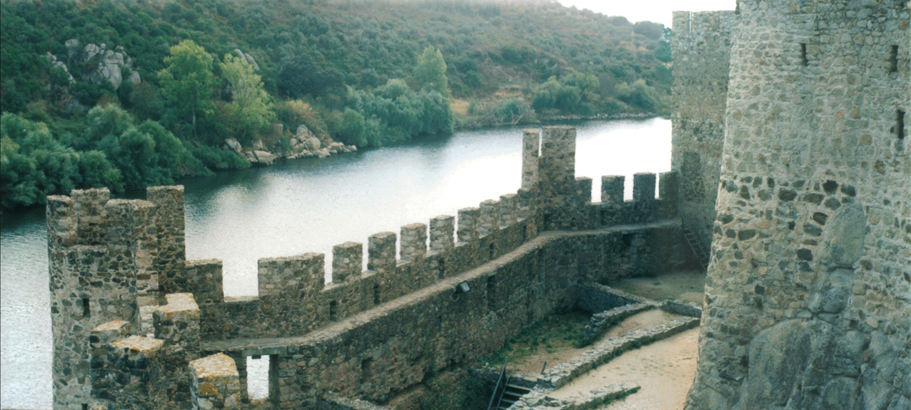 Almourol Castle in Vila Nova da Barquinha, Portugal: View from the interior to the Tagus river. 2 photos composition. Photographer: Lusitana Date: 2002